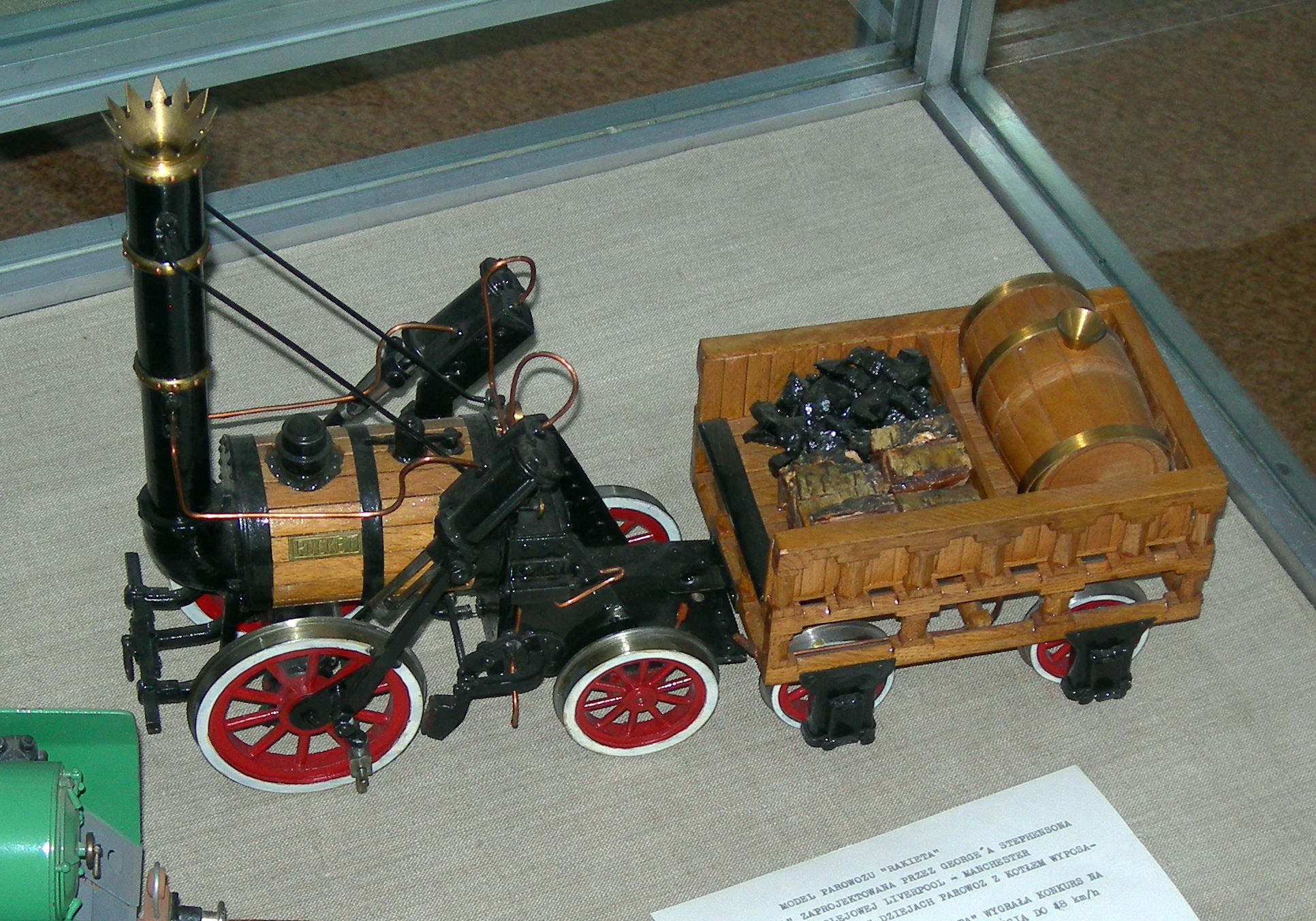 Stephenson's Rocket model in Pommeranian Narrow Gauge Railways Museum in Gryfice, Poland